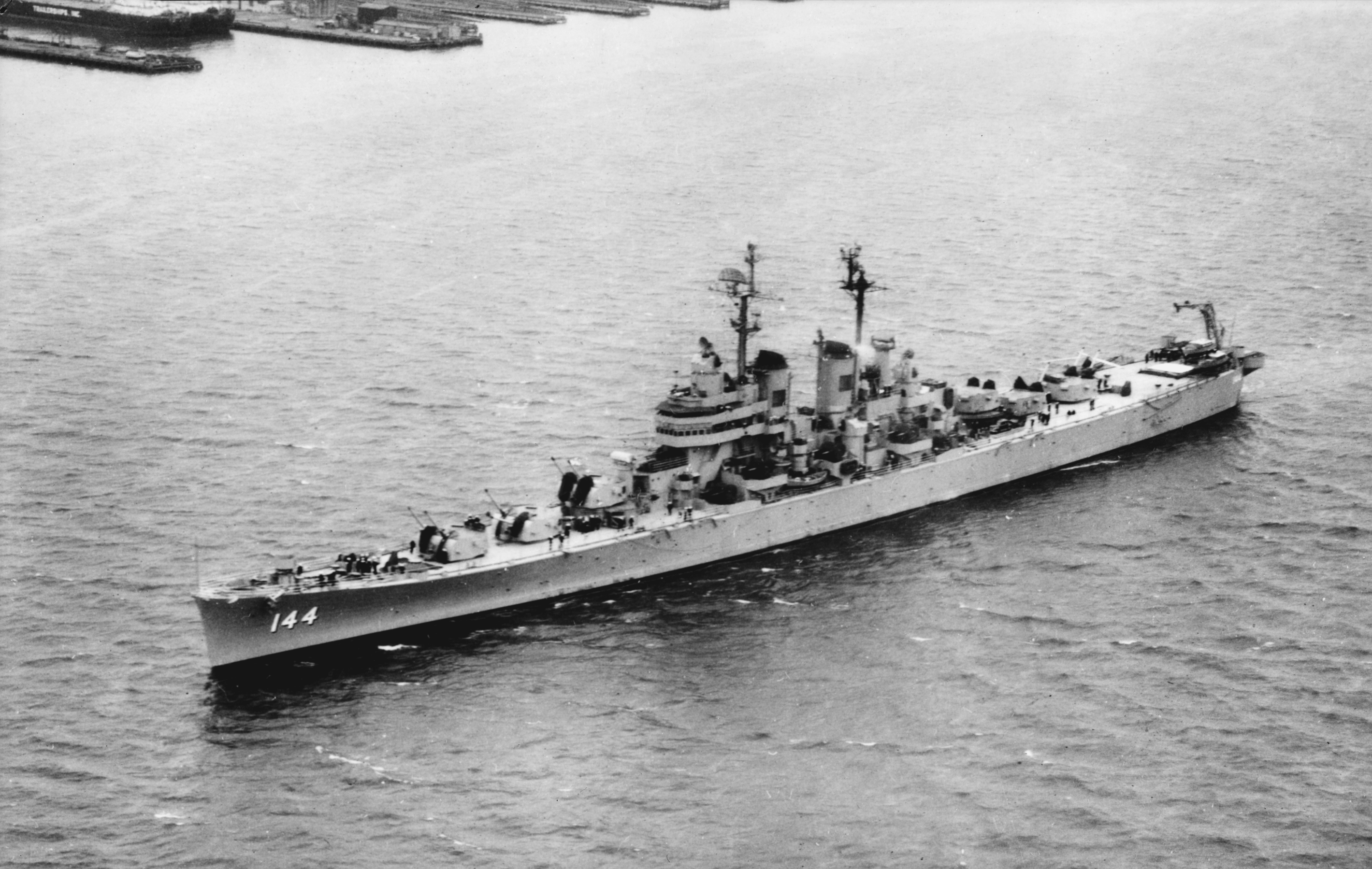 The U.S. Navy light cruiser USS Worcester (CL-144) underway off the Philadelphia Naval Shipyard, Pennsylvania (USA), in November 1949. Note the high angle of the 155 mm/47 Mk 16 guns.